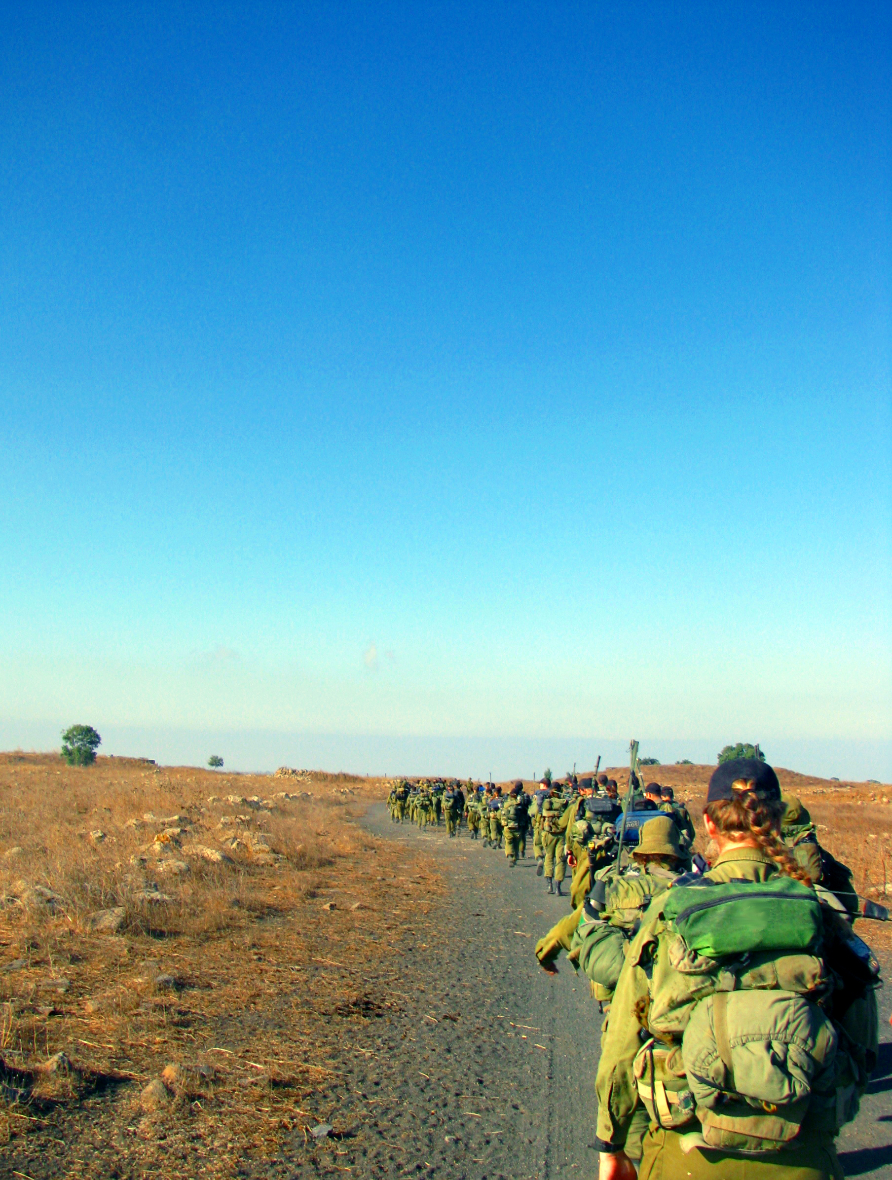 Soldiers in the Israel Defense Forces marching in Rujm el-Hiri, Golan Heights.